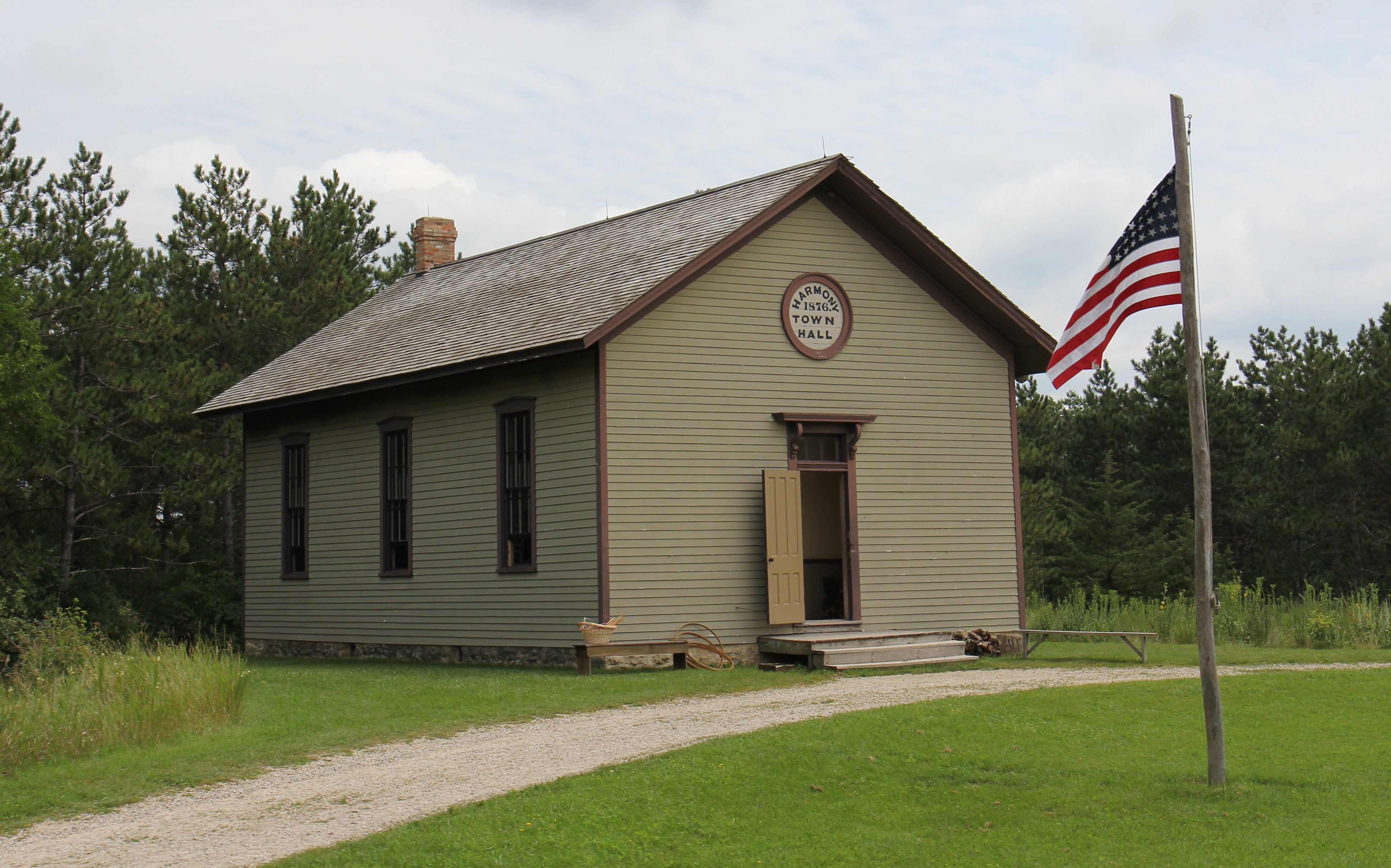 The Harmony Town Hall at Old World Wisconsin. It is the 1876 town hall for the Town of Harmony in Rock County, Wisconsin.